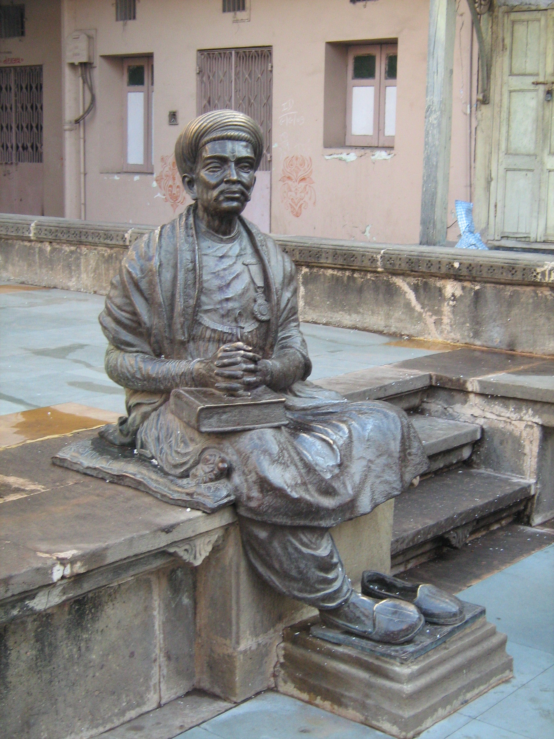 Photos of Ahmedabad's Walled City taken during the Heritage Walk conducted jointly by Ahmedabad Municipal Corporation and the CRUTA Foundation